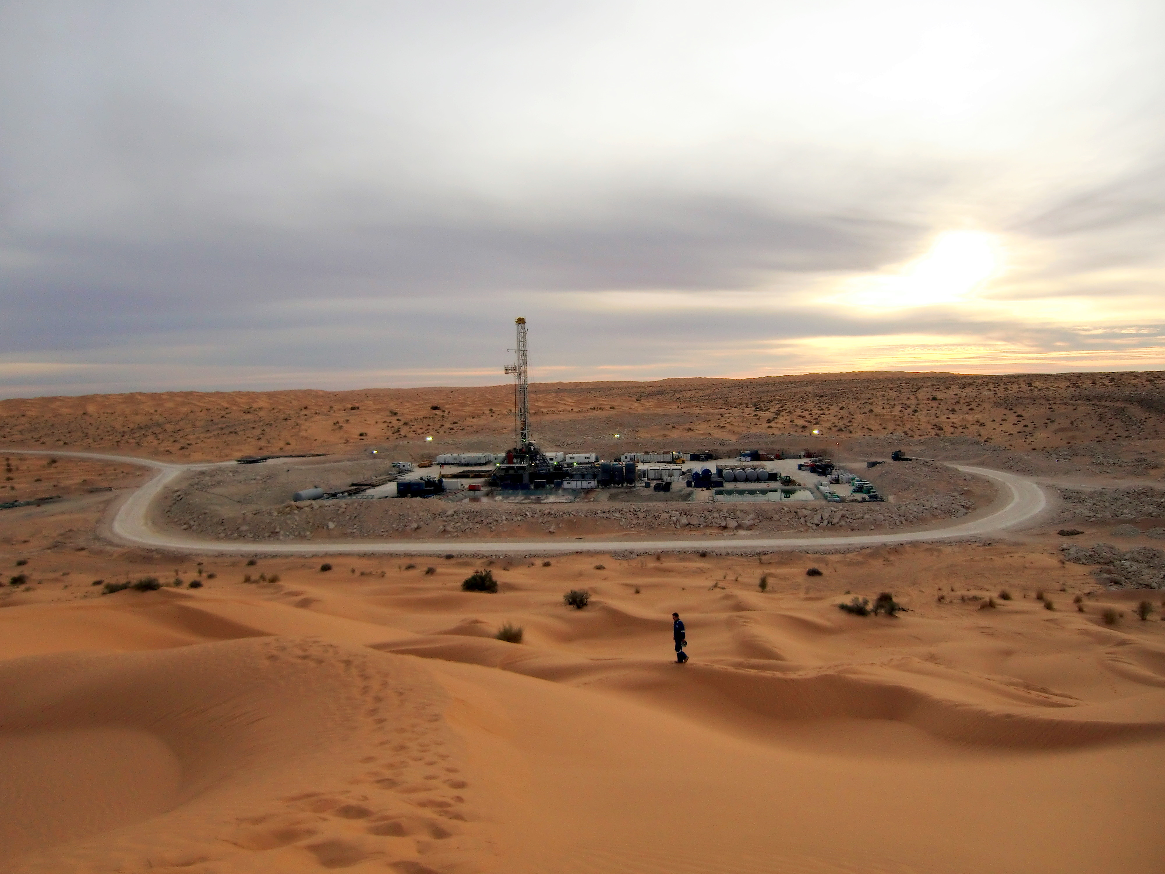 Nawara:Fella1 field location